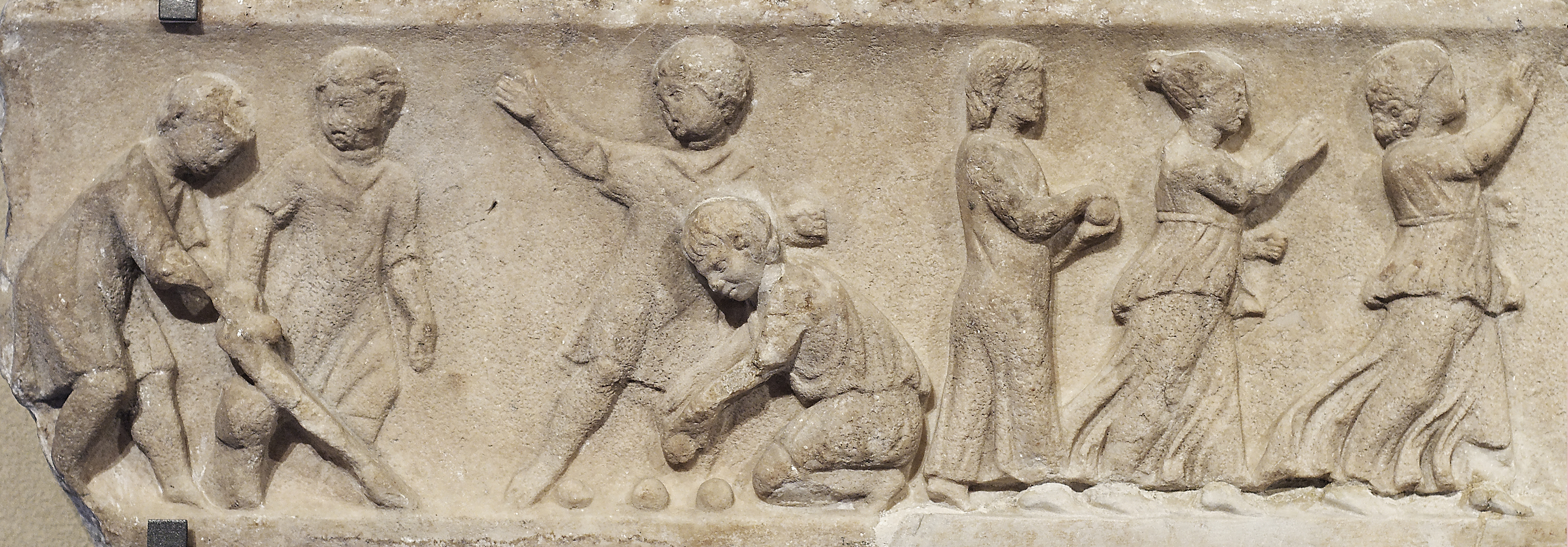 Children playing ball games. Marble, Roman artwork of the second quarter of the 2nd century AD. Provenance unknown.